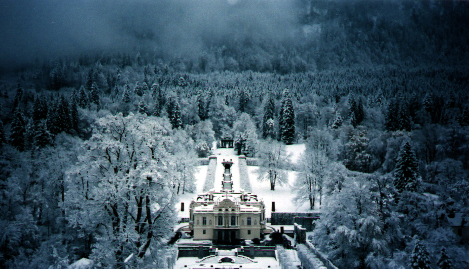 Linderhof Palace